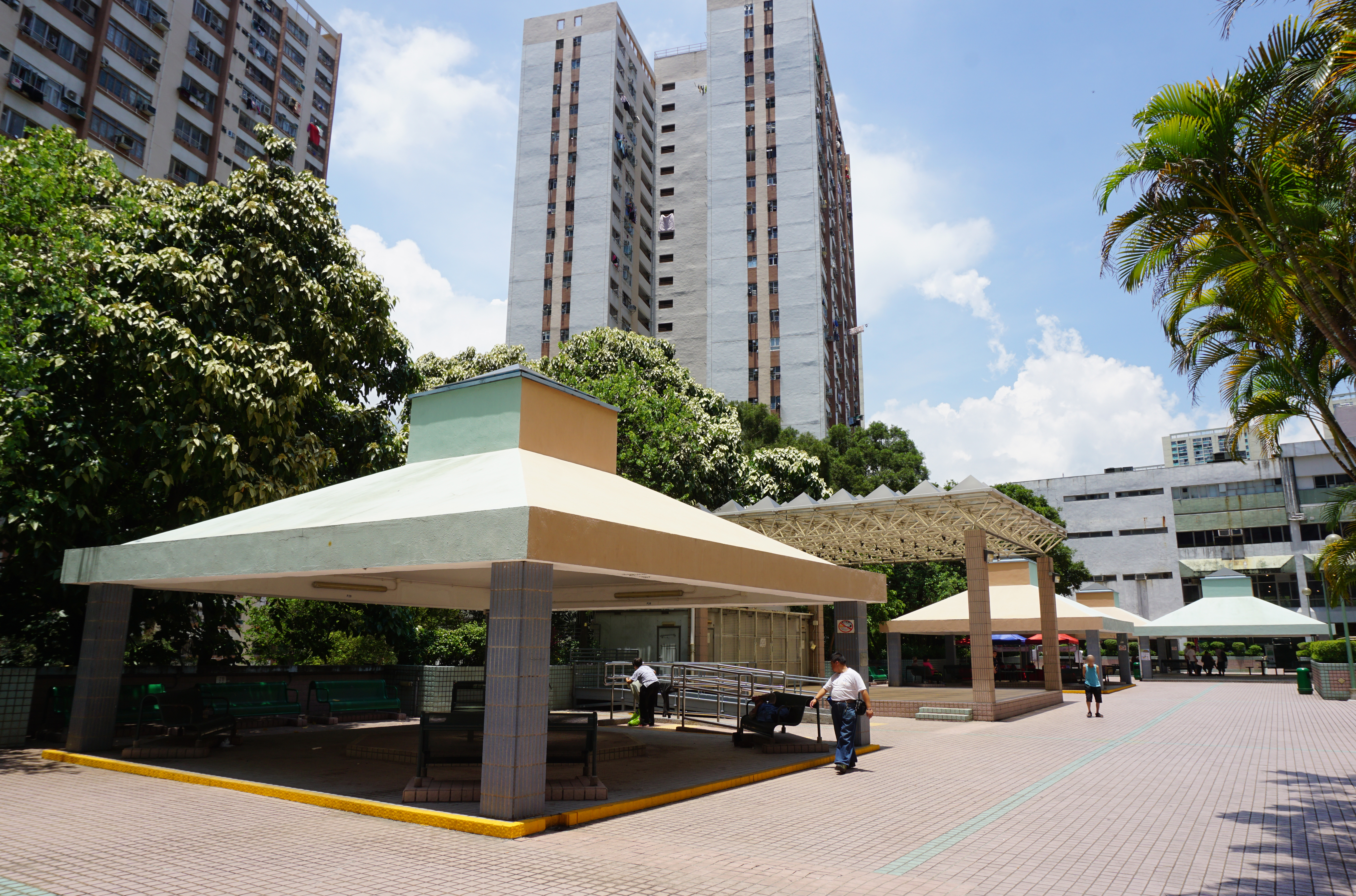 Cheung Hong Estate in Tsing Yi, Hong Kong.